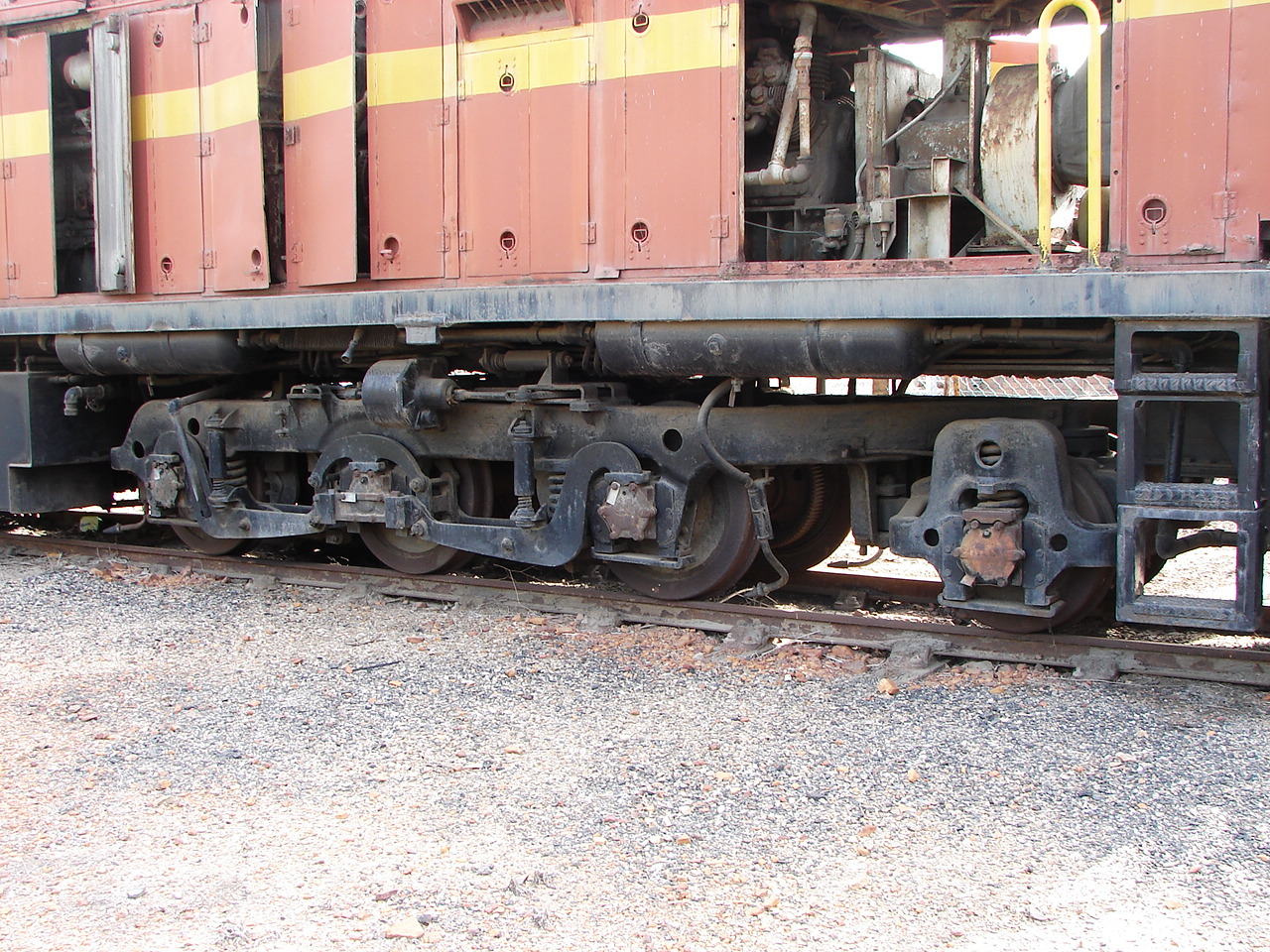 South African Class 32-000 32-047 rear bogie Builder's Number: GE 33768 Type: GE U18C1 Location: Voorbaai, Mosselbaai, Western Cape